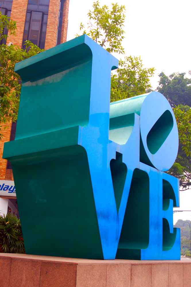 remastered remixed piece of magic. this pic is dedicated to GOOD music.